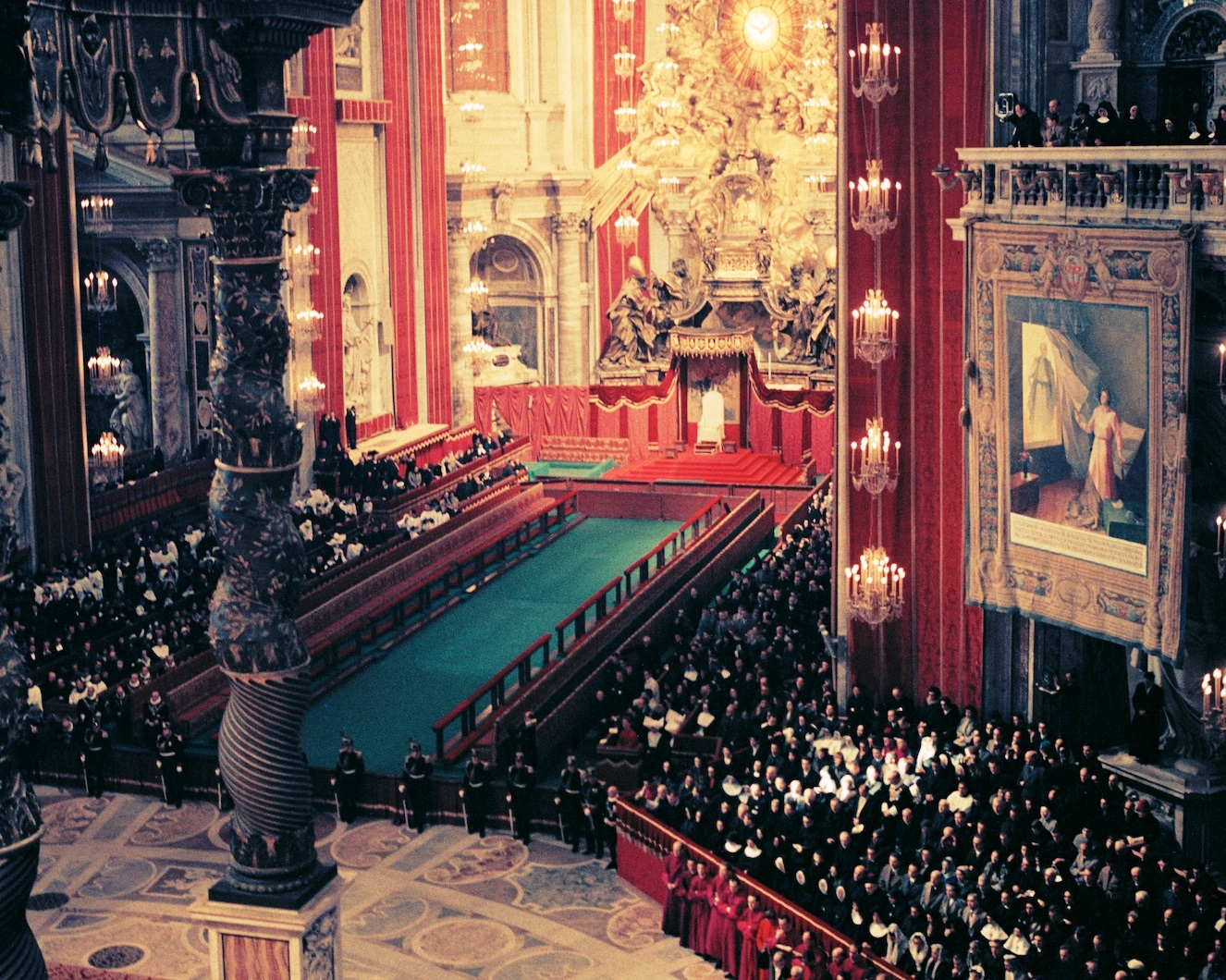 Second Vatican Council